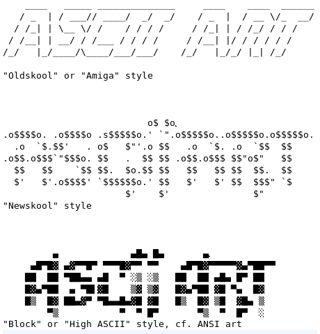 3 examples of ascii art